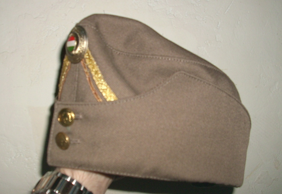 Bocskai side cap